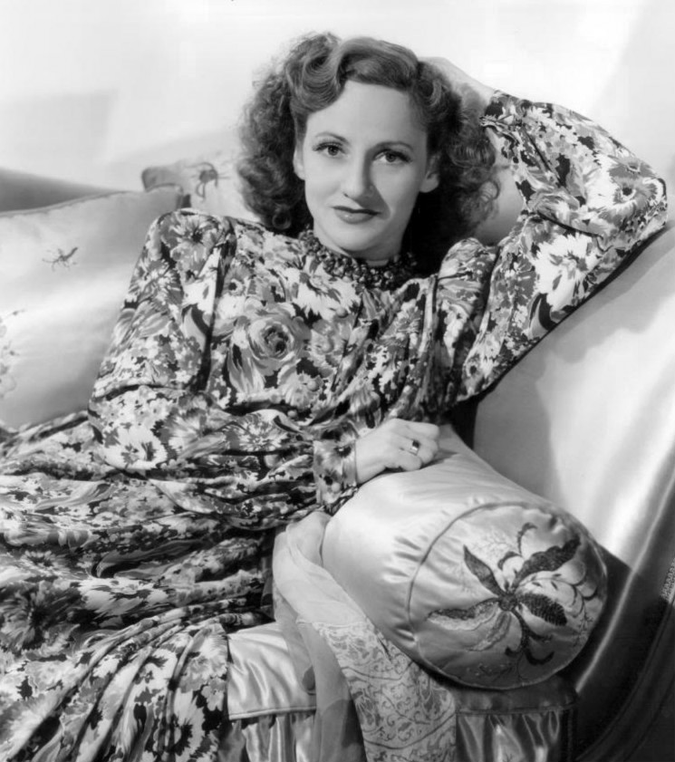 Publicity photo of singer Connee Boswell from the radio program Kraft Music Hall.